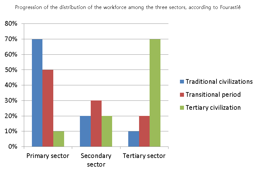 The distribution of the workforce among the three sectors progresses through different stages as follows, according to Fourastié. Based on to illustrate said article.